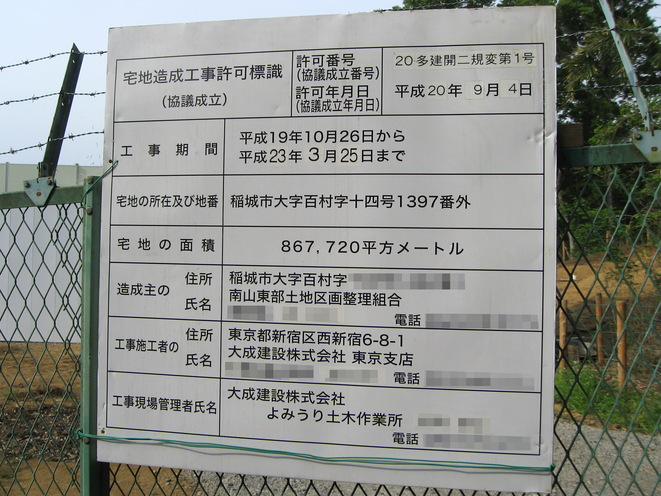 Permission sign of housing land development of Minami Yama Toubu Tochi Kukaku in Inagi, Tokyo, Japan. The development was approved on September 4, 2008.